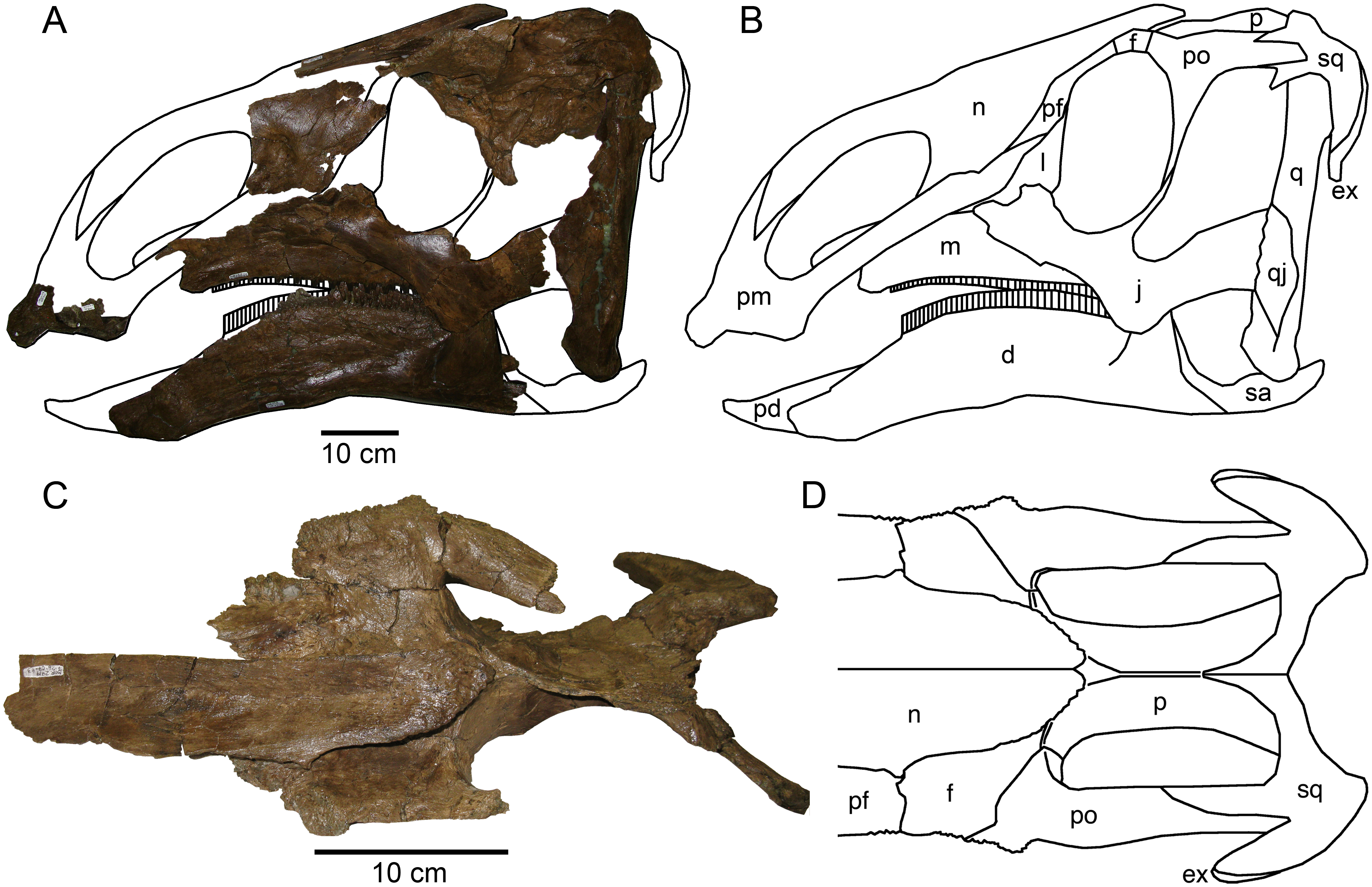 Probrachylophosaurus bergei gen. et sp. nov. skull reconstruction. (A) Preserved skull elements of MOR 2919, left lateral view. Predentary not included due to its poor preservation and diagenetic compression. (B) Outline of skull reconstruction, left lateral view. The outline accounts for diagenetic distortion of the posterior braincase, but otherwise does not correct for distortion of skull elements. Outlined regions where left skull material was not preserved are based on right bones when available. Regions with neither left nor right material preserved are hypothesized reconstructions based on Brachylophosaurus canadensis skulls. (C) Braincase with left nasal crest, dorsal view. (D) Outline of braincase reconstruction with nasal crest, dorsal view. Reconstruction accounts for diagenetic lateral compression and distortion of posterior braincase. Abbreviations: d, dentary; ex, exoccipital; f, frontal; j, jugal; l, lacrimal; m, maxilla; n, nasal; p, parietal; pd, predentary; pf, prefrontal; pm, premaxilla; po, postorbital; q, quadrate; qj, quadratojugal; sa, surangular; sq, squamosal.